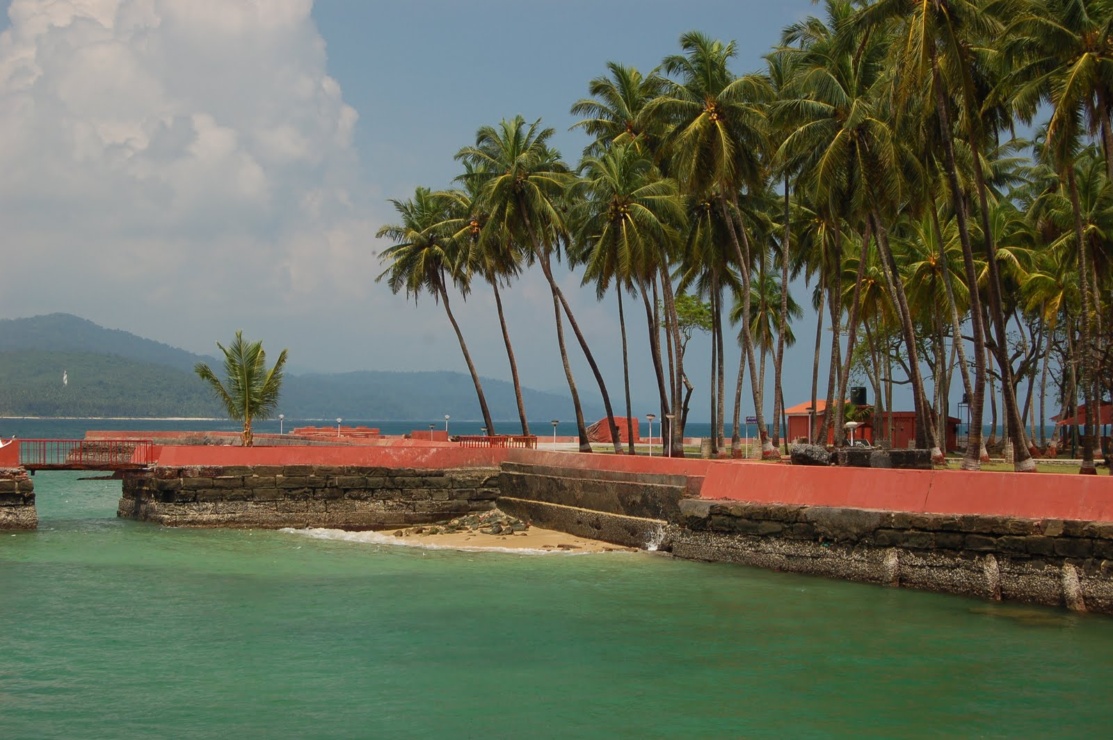 Ross Island, Andaman & Nicobar Islands, India